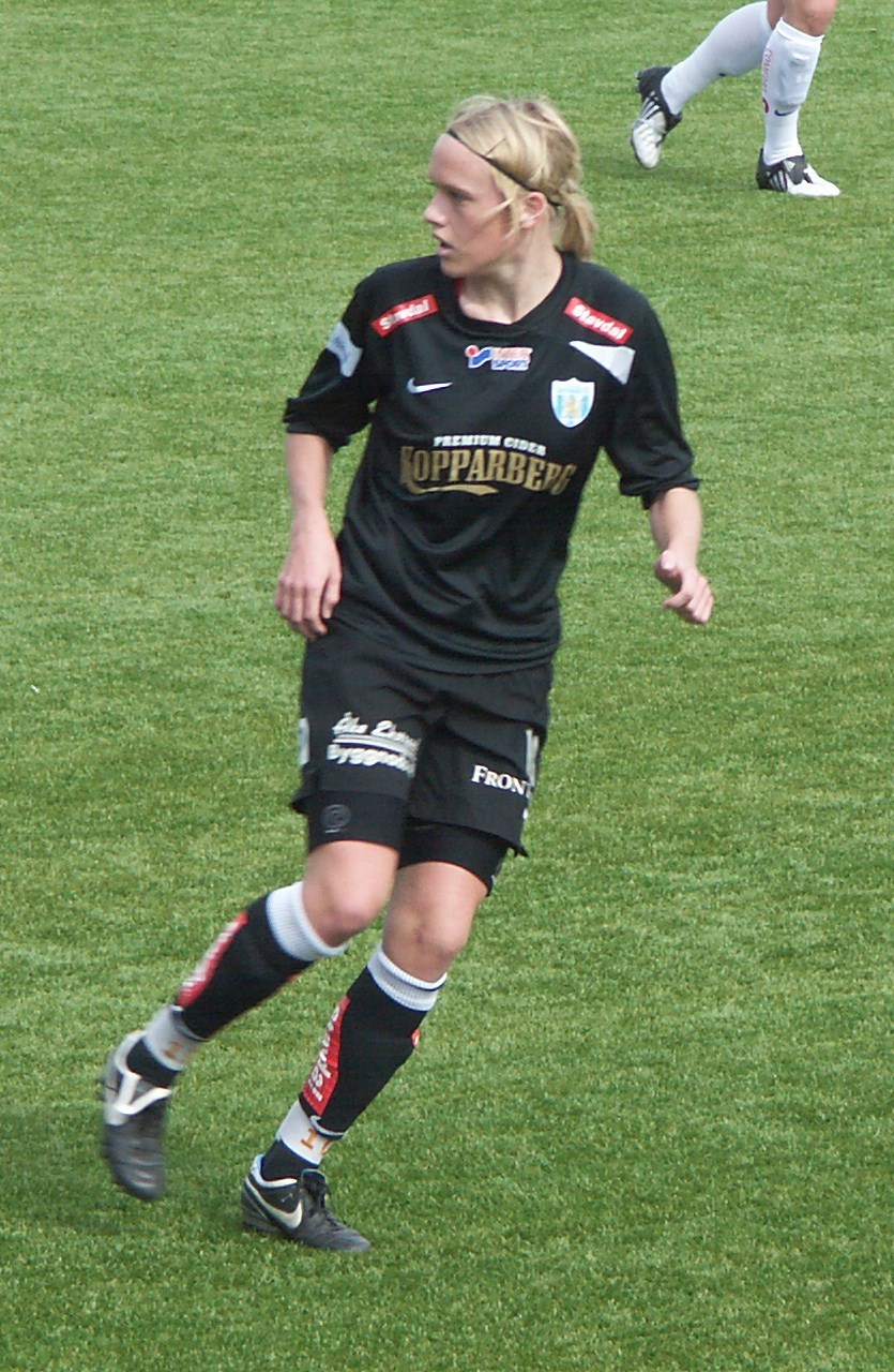 Swedish football player Linnea Liljegärd of Kopparbergs/Göteborg FC.